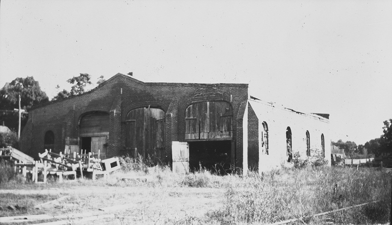 Engine house for the Port Perry & Port Whitby Railway located on the north-east corner of Mary and Pine Streets in Whitby. The building was built in 1876 to replace an engine house that burned down in 1875. This image, from 1946, was taken after the line was no longer being used, and the engine house is already in decay. The rails had already been removed in 1941. The building was later used as a garage. The site is now a residential area and the building no longer exists